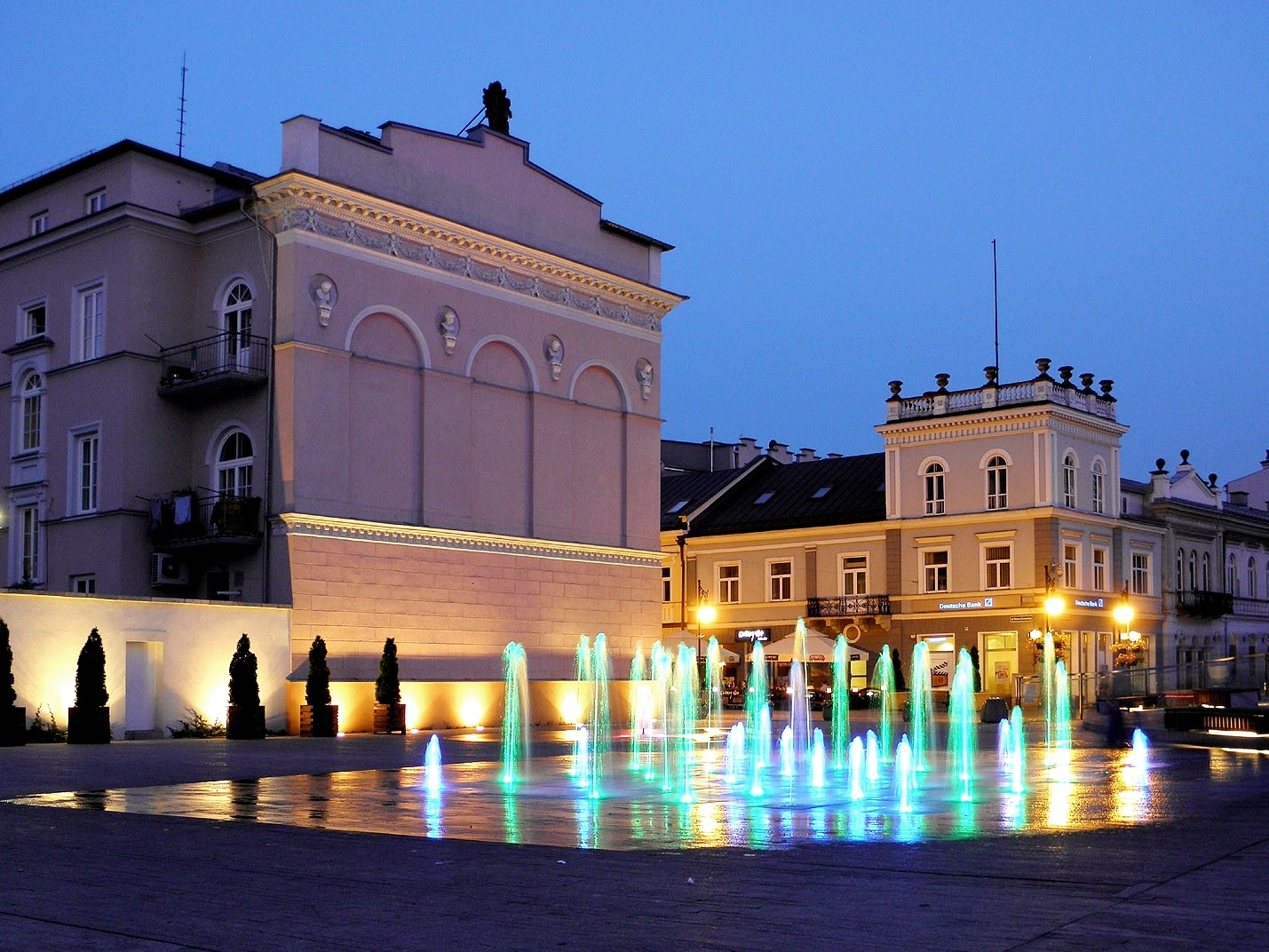 Fountain, Radom, Poland